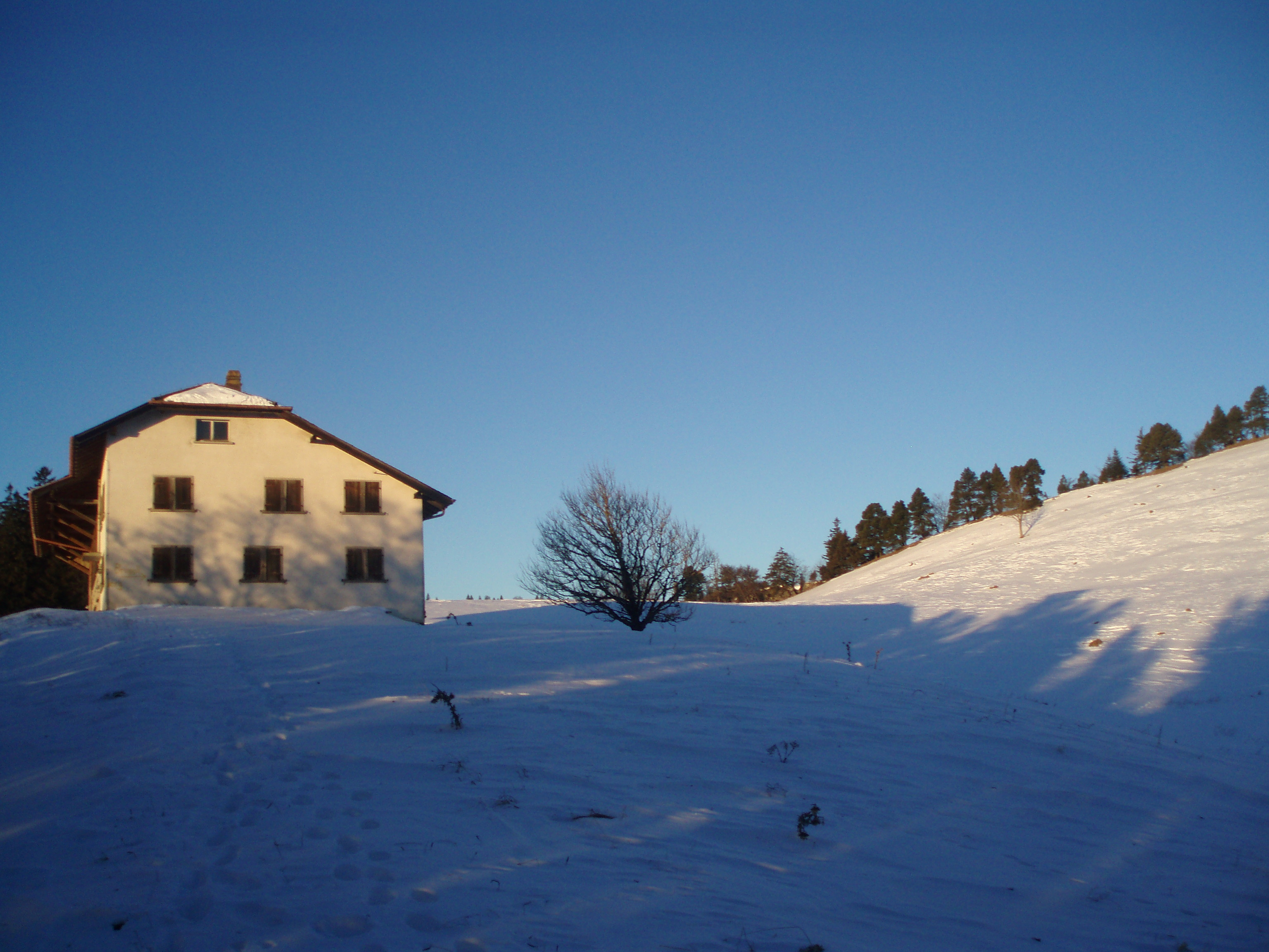 Bettlachstock/Switzerland